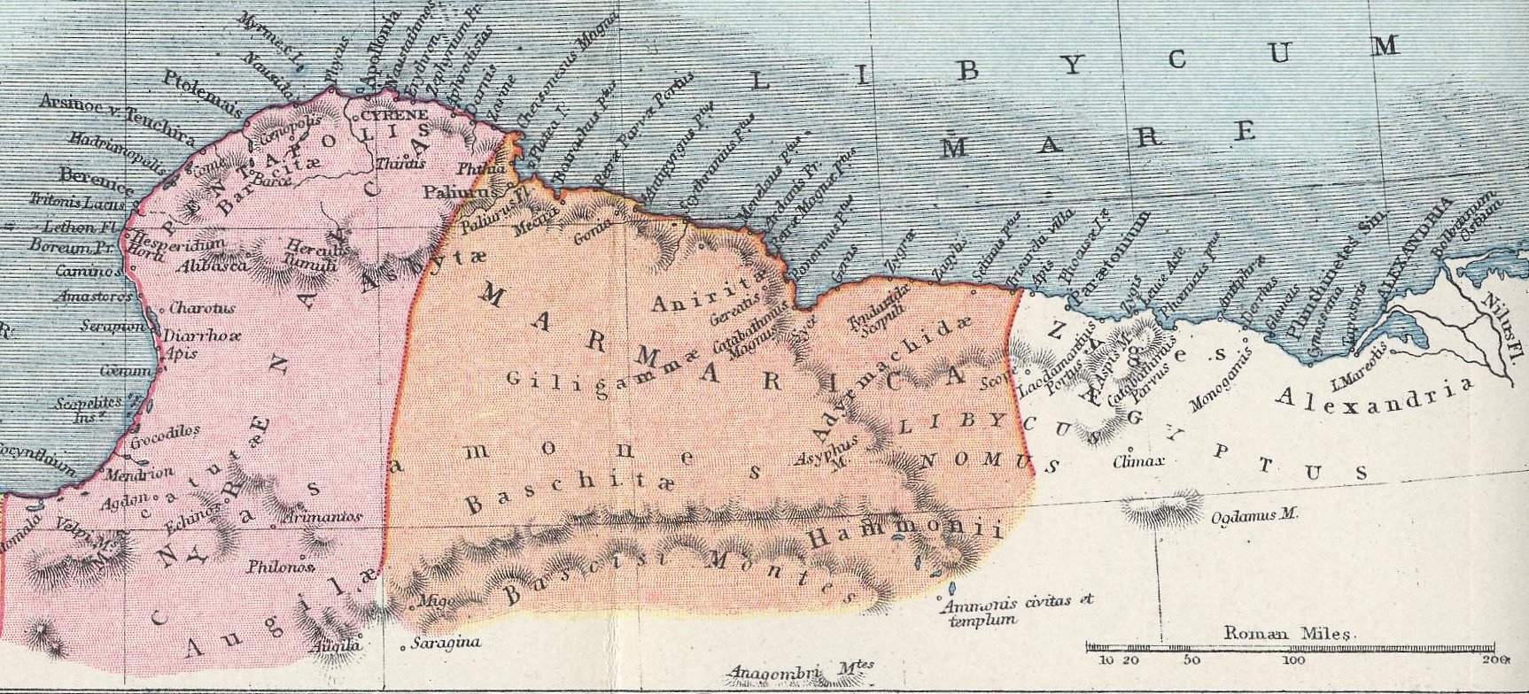 Cyrenaica and Marmarica in the Roman era (2nd century AD)